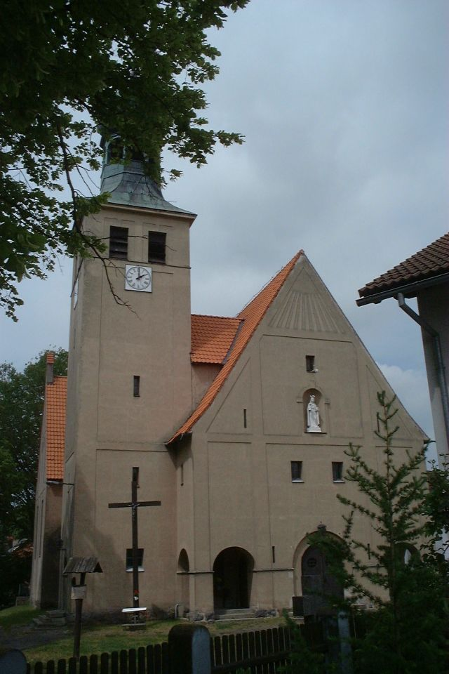 Poland, Swornegacie - church.